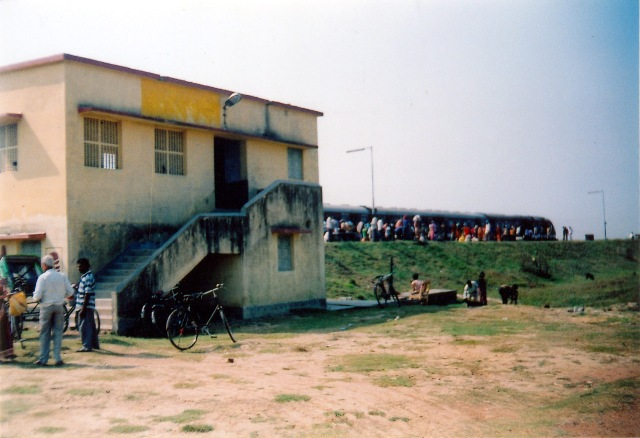 The present Rainagar (or Raina??) station.